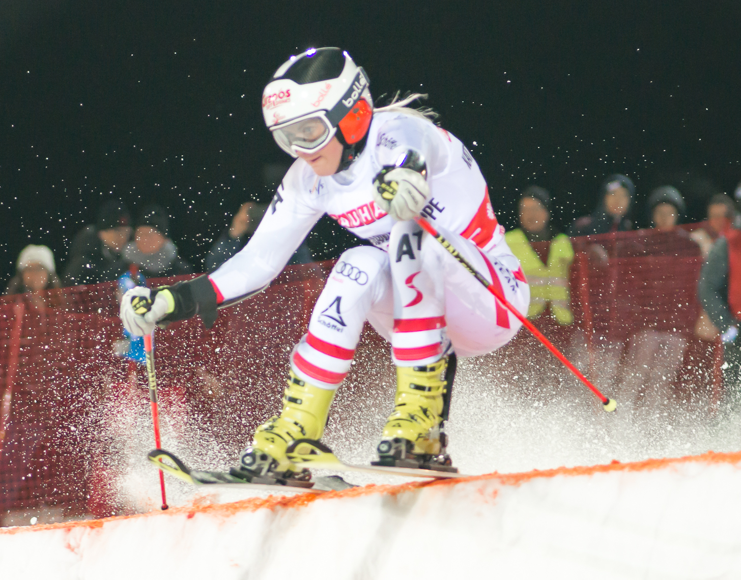 Katharina Truppe in full speed Photo by Roland Osbeck